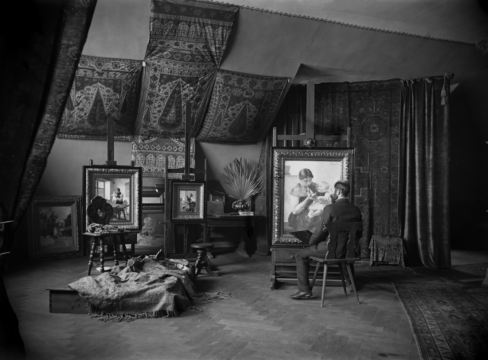 Gerorgios Jakobides in his studio in Munich